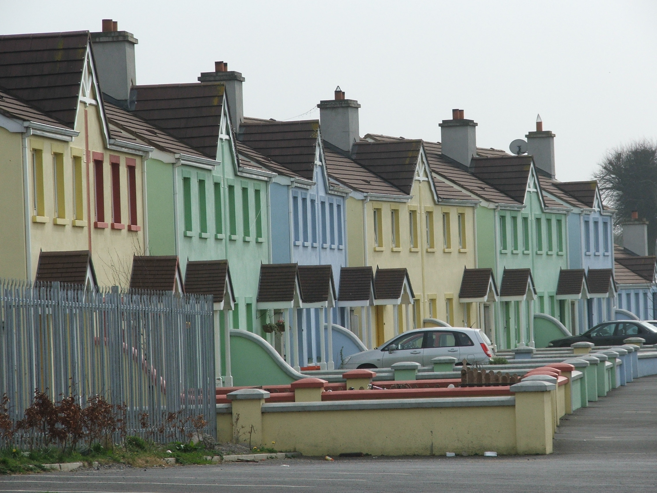 Housing estate on the outskirts of Athy.Sesame Street